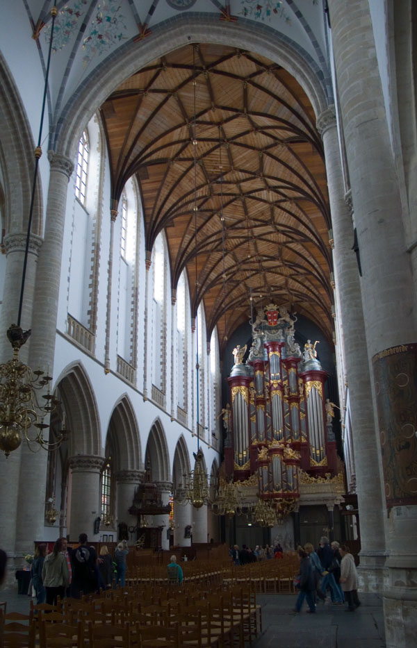 Grote of St Bavo Kerk, inside with Müller organ, Haarlem, The Netherlands